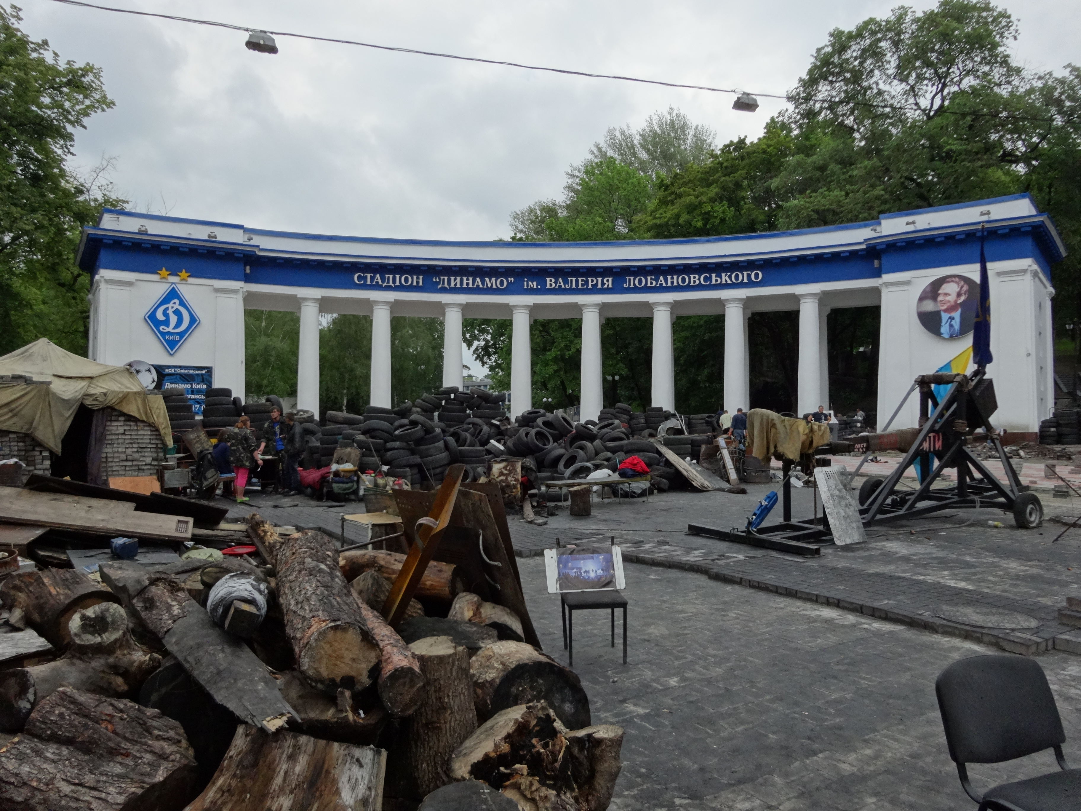 Entrance of "Dynamo Kiev" with remains of barricades